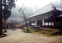 Shougoji temple,Kikuchishi Hougi aza Hanjaku,Kumamotoken,Japan